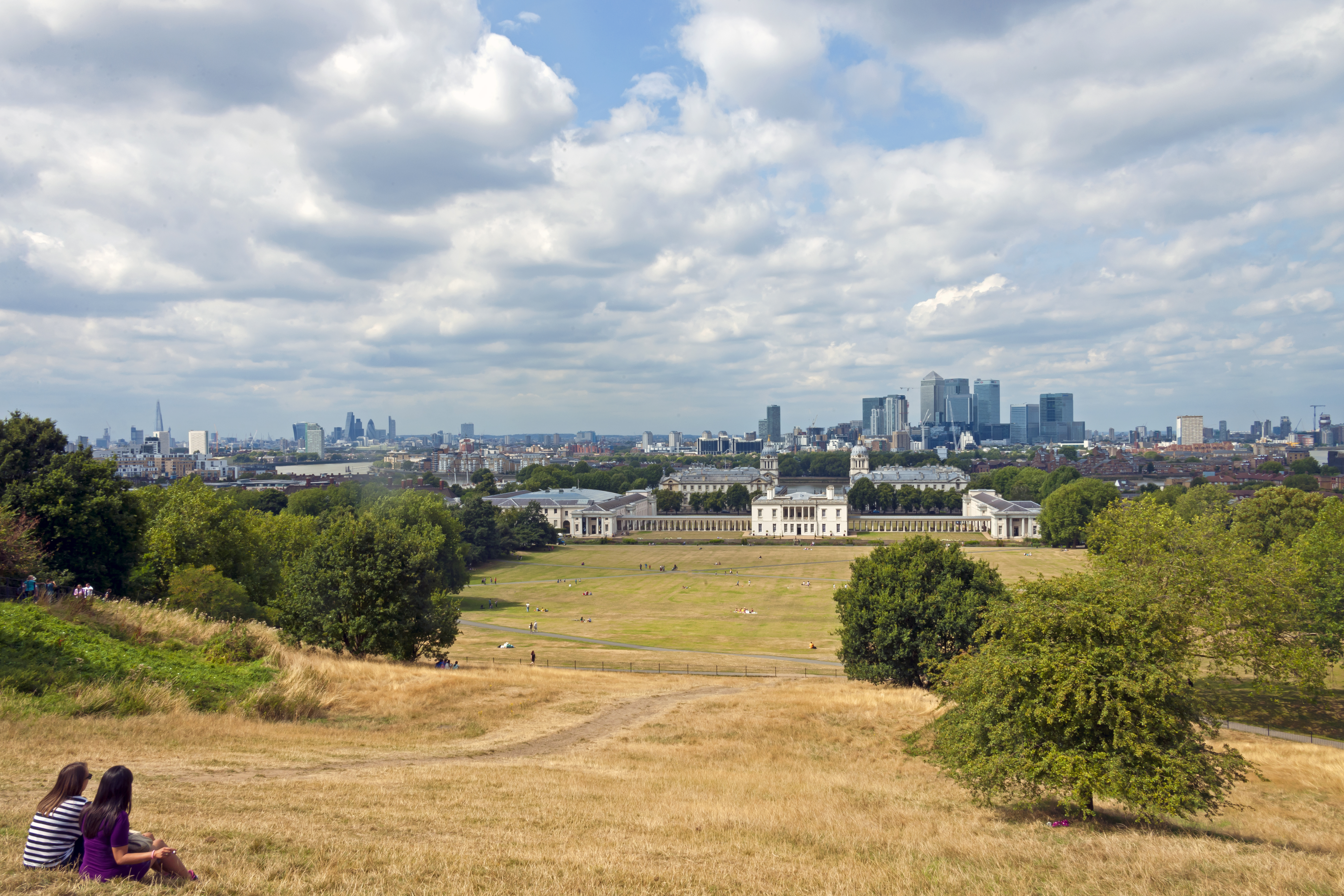 View of Maritime Greenwich World Heritage Site, Canary Wharf and City skylines from Wolfe statue near Royal Observatory, Greenwich